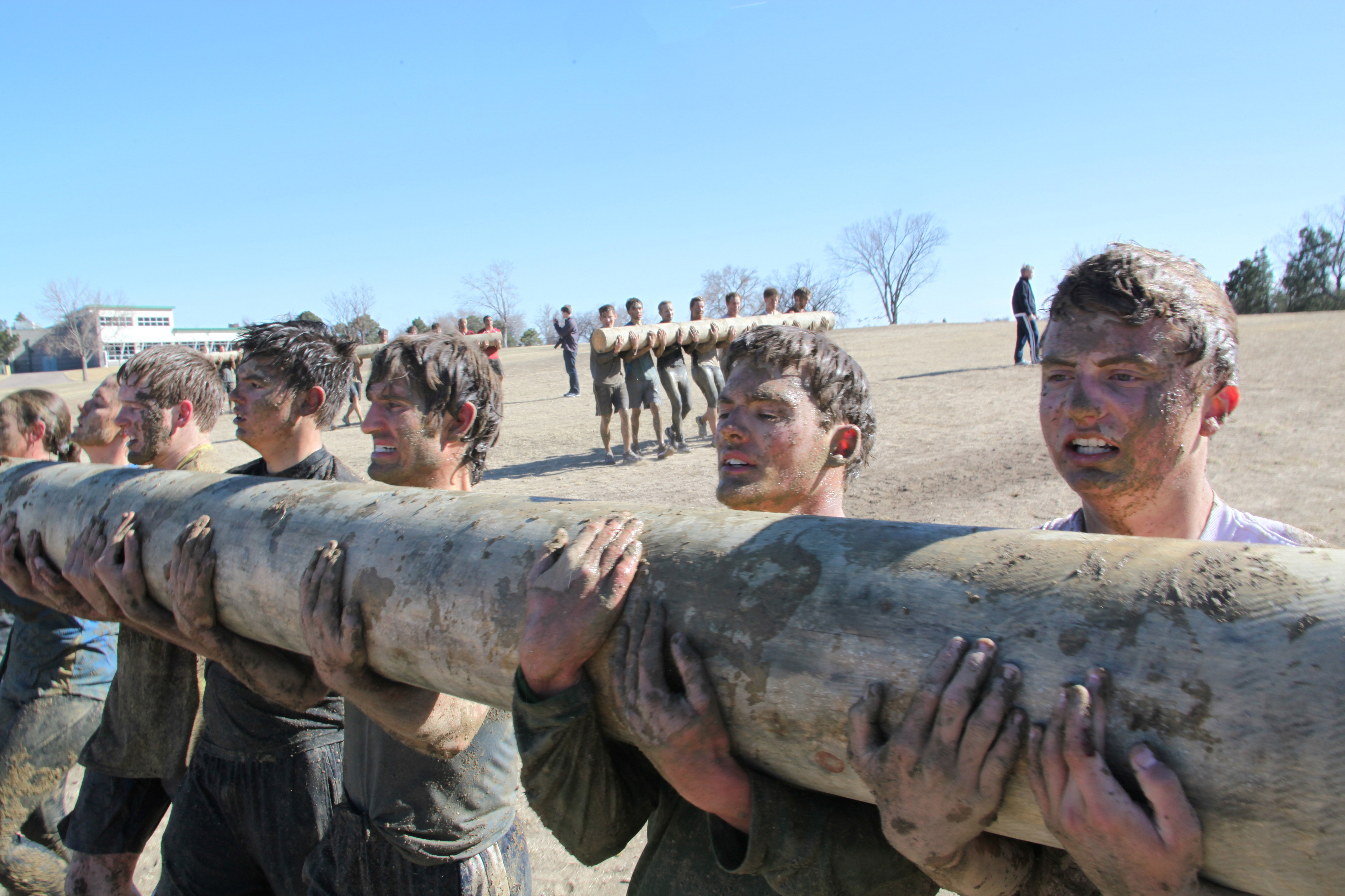 Members of the United States Olympic Sailing Team carry a 220-pound log during Navy SEAL "mental toughness" training near the Olympic Training Center in Colorado Springs, Col. The sailing team, which will represent the United States in the 2012 Summer Olympics in London, participated in team building exercises and learned how to be more mentally tough from Navy SEALs assigned to the Navy SEAL and Special Warfare Combatant-Craft Crewman Scout Team in San Diego. The scout team provides mental and physical training for different athletic teams with the goal of creating awareness for careers in Naval Special Warfare. Unit: Navy Media Content Services DVIDS Tags: Olympic; U.S. Navy; training; Colorado Springs, Colo.; sailing team